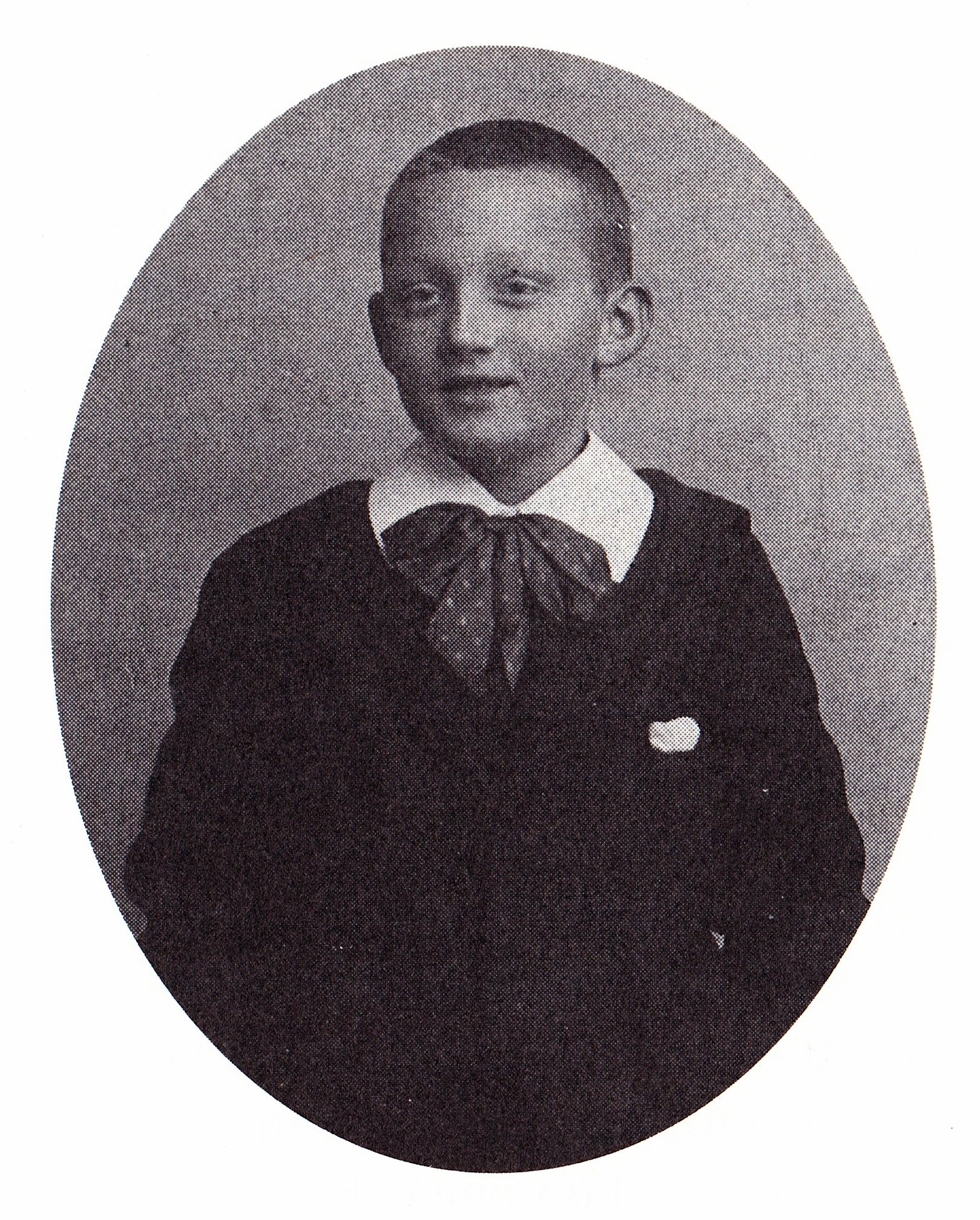 Trygve Gulbranssen as a child.